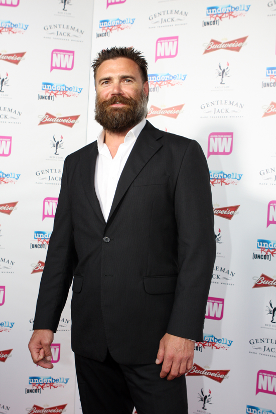 Jeremy Lindsay Taylor, Underbelly Razor DVD Party At East Village Surry Hills.